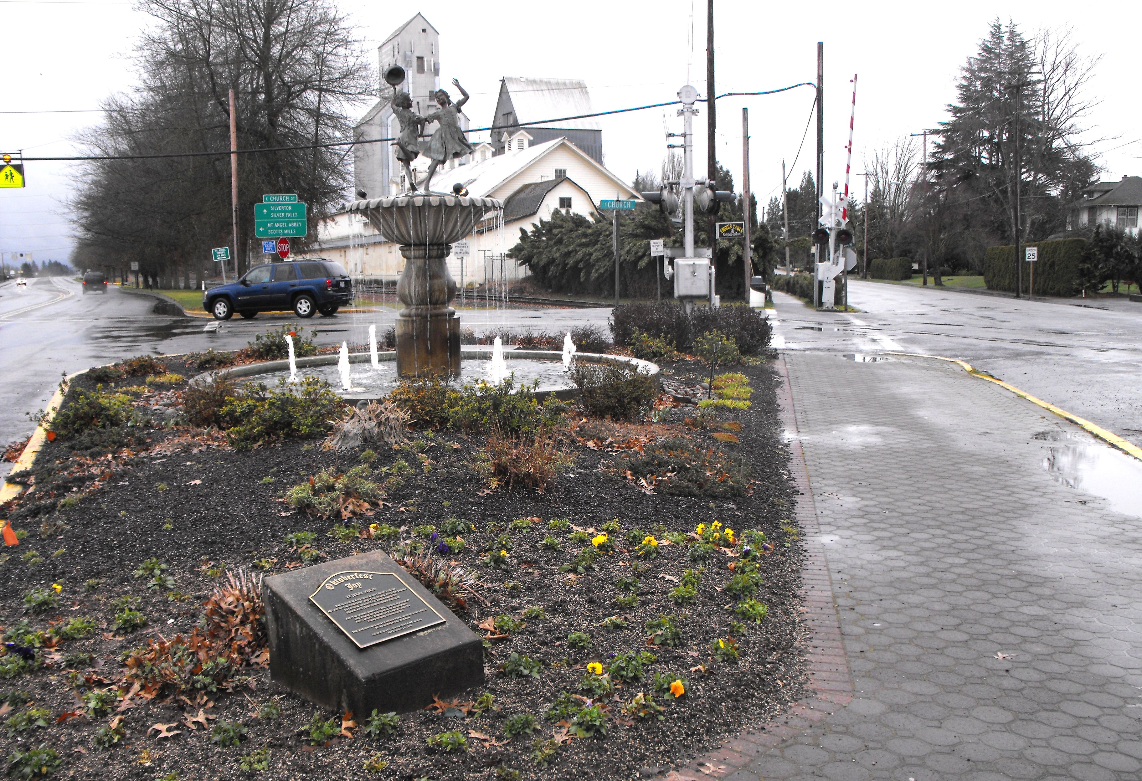 Dancing children elevator, on Octoberfest, by Jerry Joslin